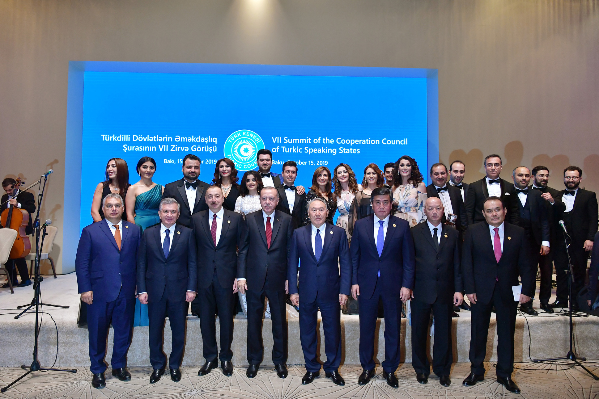 7th Summit of Cooperation Council of Turkic-Speaking States in Baku